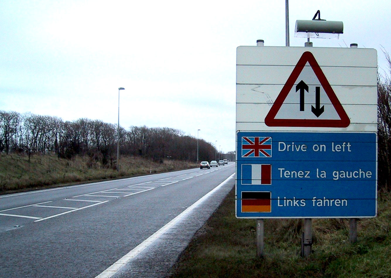 A road sign in Kent, reminding traffic to drive on the left.